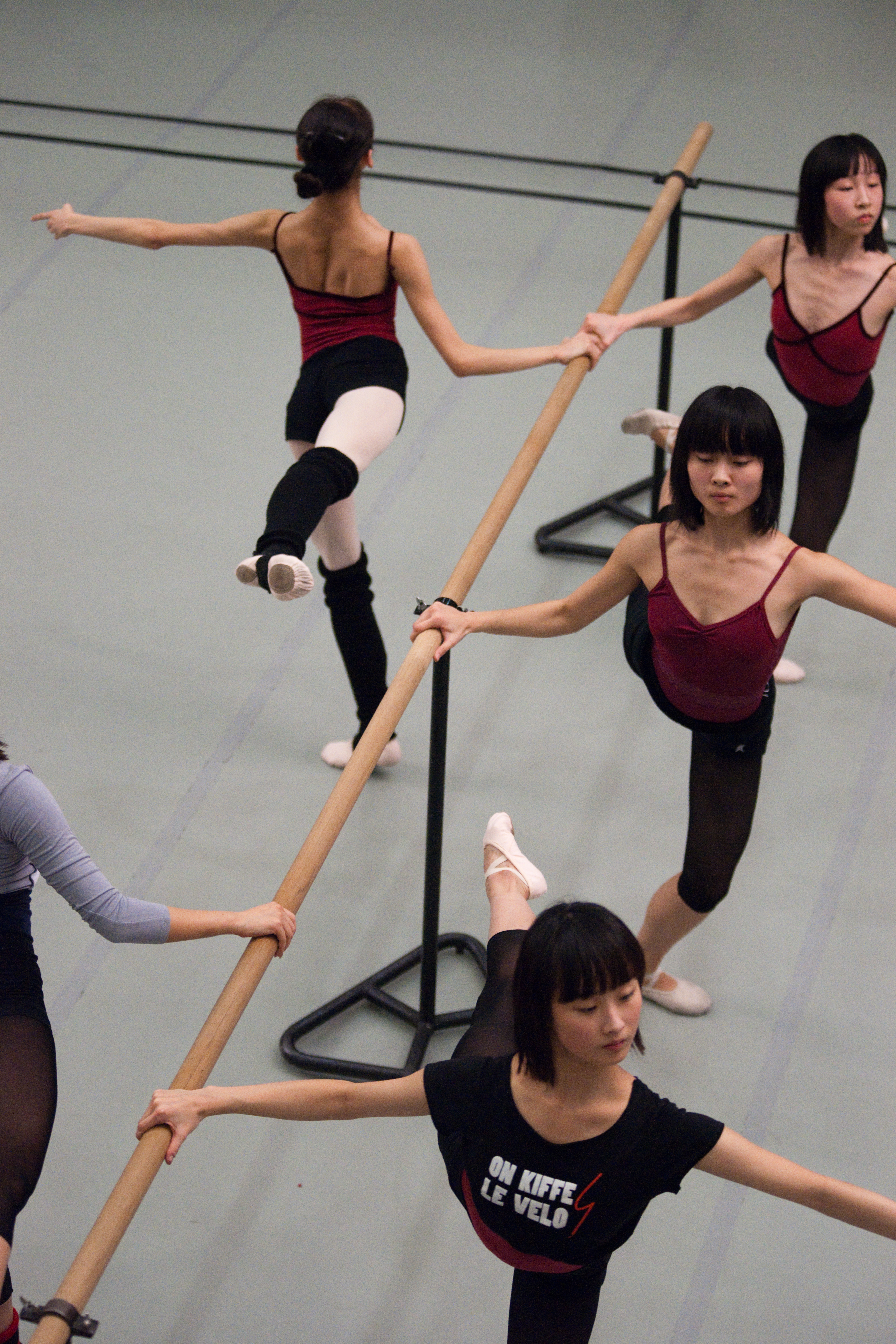 The making of this document was supported by Wikimedia CH. (Submit your project!) For all the files concerned, please see the category Supported by Wikimedia CH.